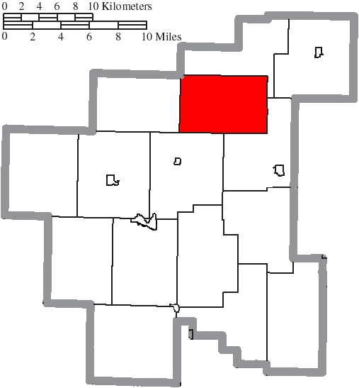 Map of the municipal and township boundaries of Noble County, Ohio, United States, as of the 2000 census, with the location of Seneca Township highlighted. Township borders are shown only in unincorporated areas in order to differentiate incorporated and unincorporated areas more clearly.